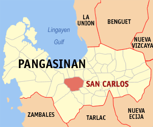 Map of Pangasinan showing the location of San Carlos City